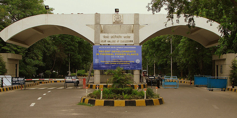 Delhi College of Engineering, main entrance